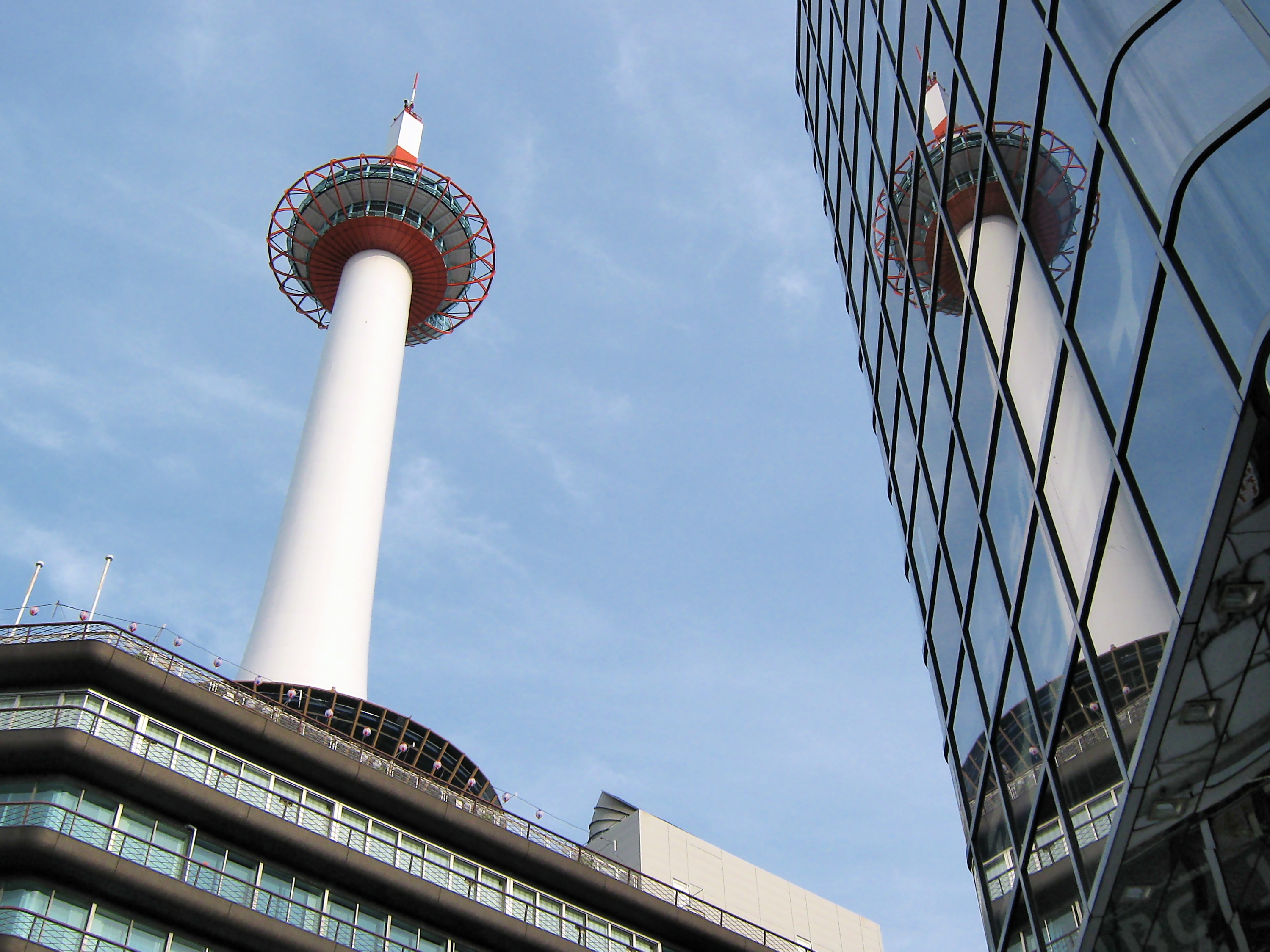 In Apr/May 2009, I took 15 days to walk all the way from Tokyo to Kyoto, roughly following the 546km long, ancient highway, the Nakasendo, alone. This picture was taken during the free week I had in Japan after the walk. Read about my preparations and my time in Japan at .